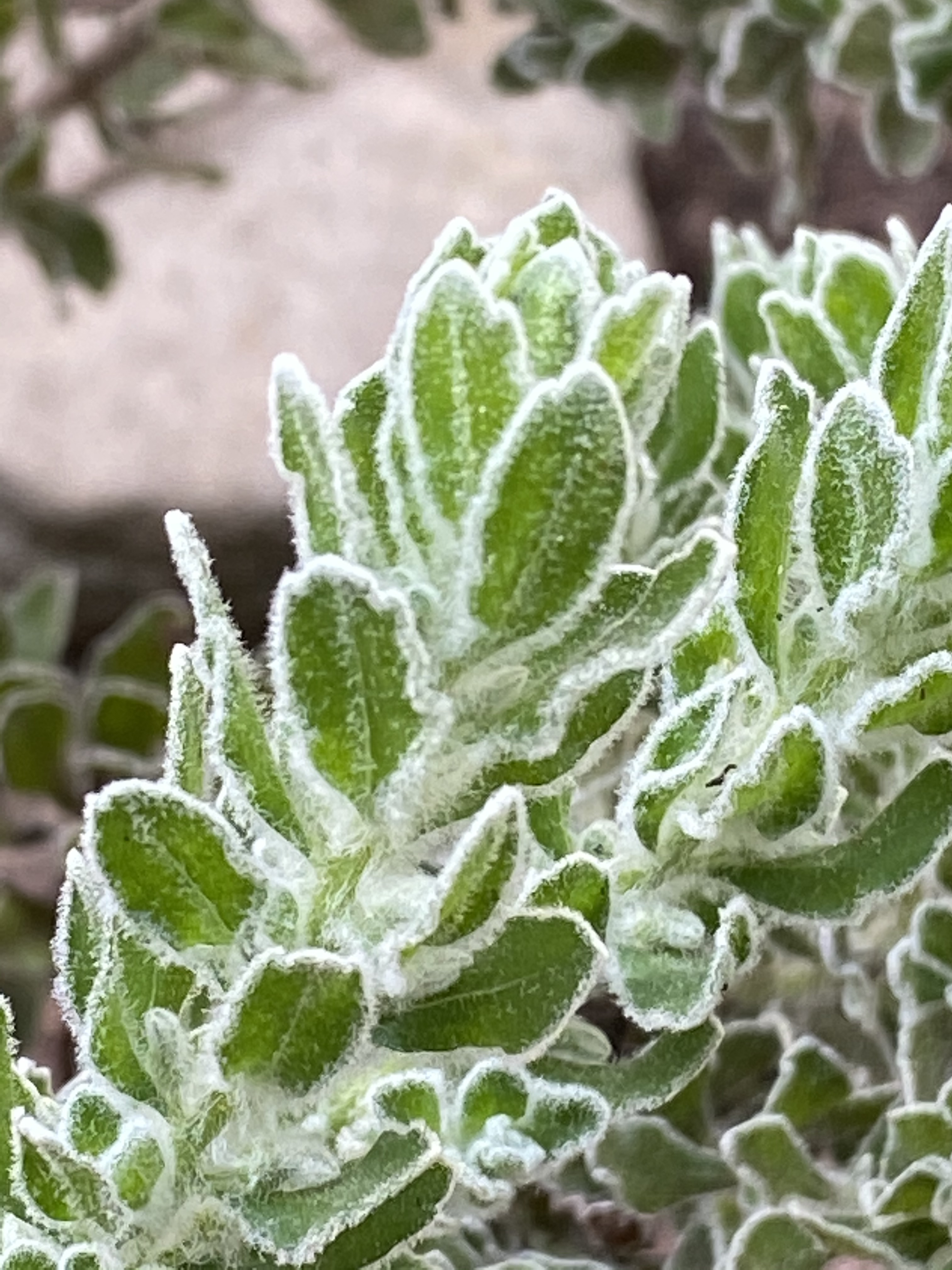 Eremophila subflocossa foliage